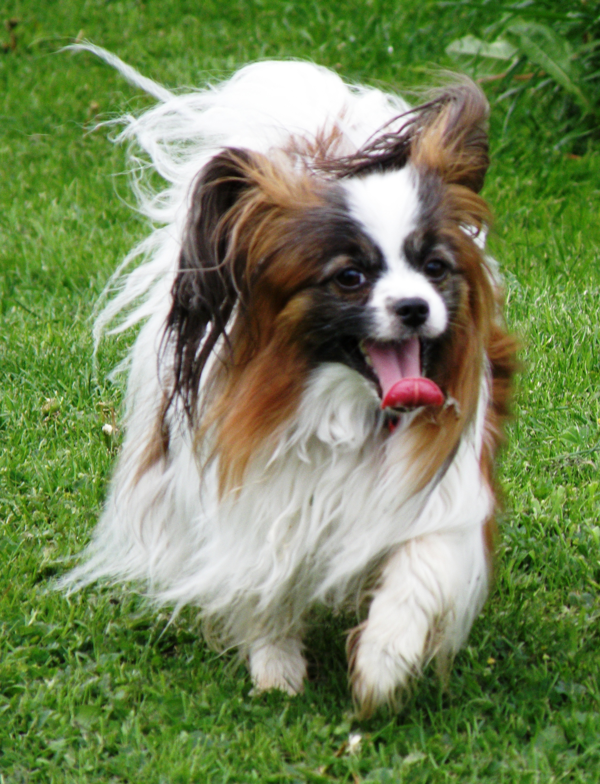 Papillon running on grass